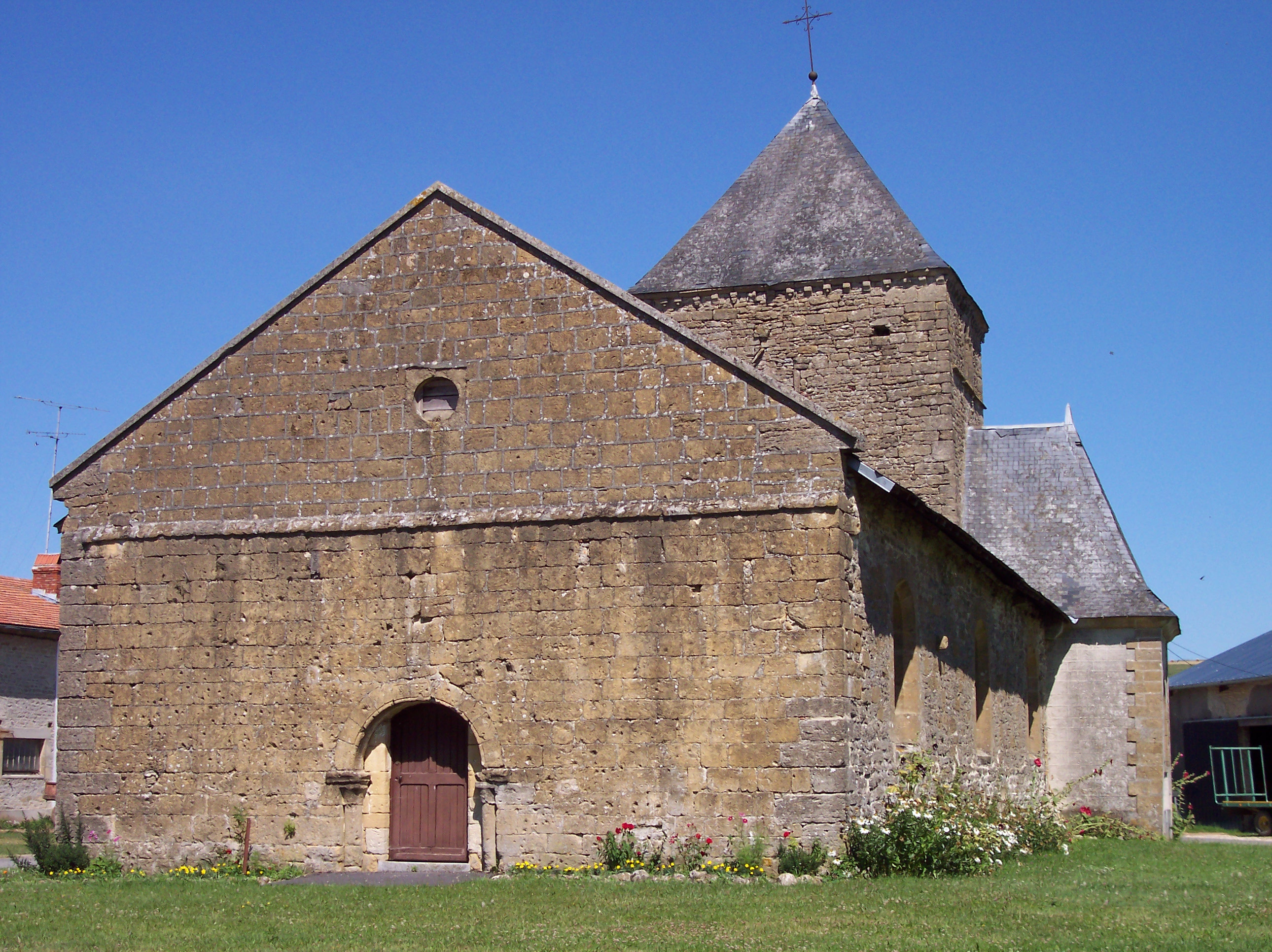 Church of Barricourt, Tailly, departement of les Ardennes, France